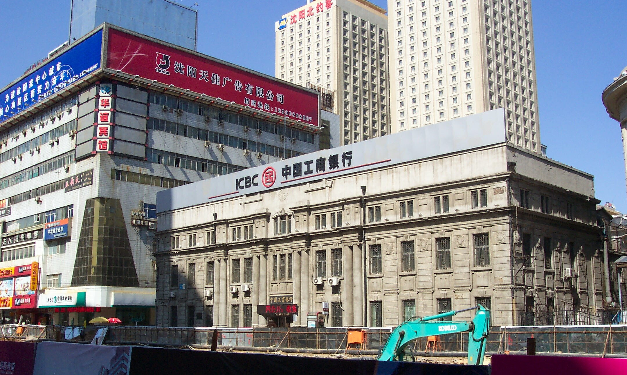 ICBC in old building near the corner of Zhonghua Road and ManJingBei Street in Shenyang